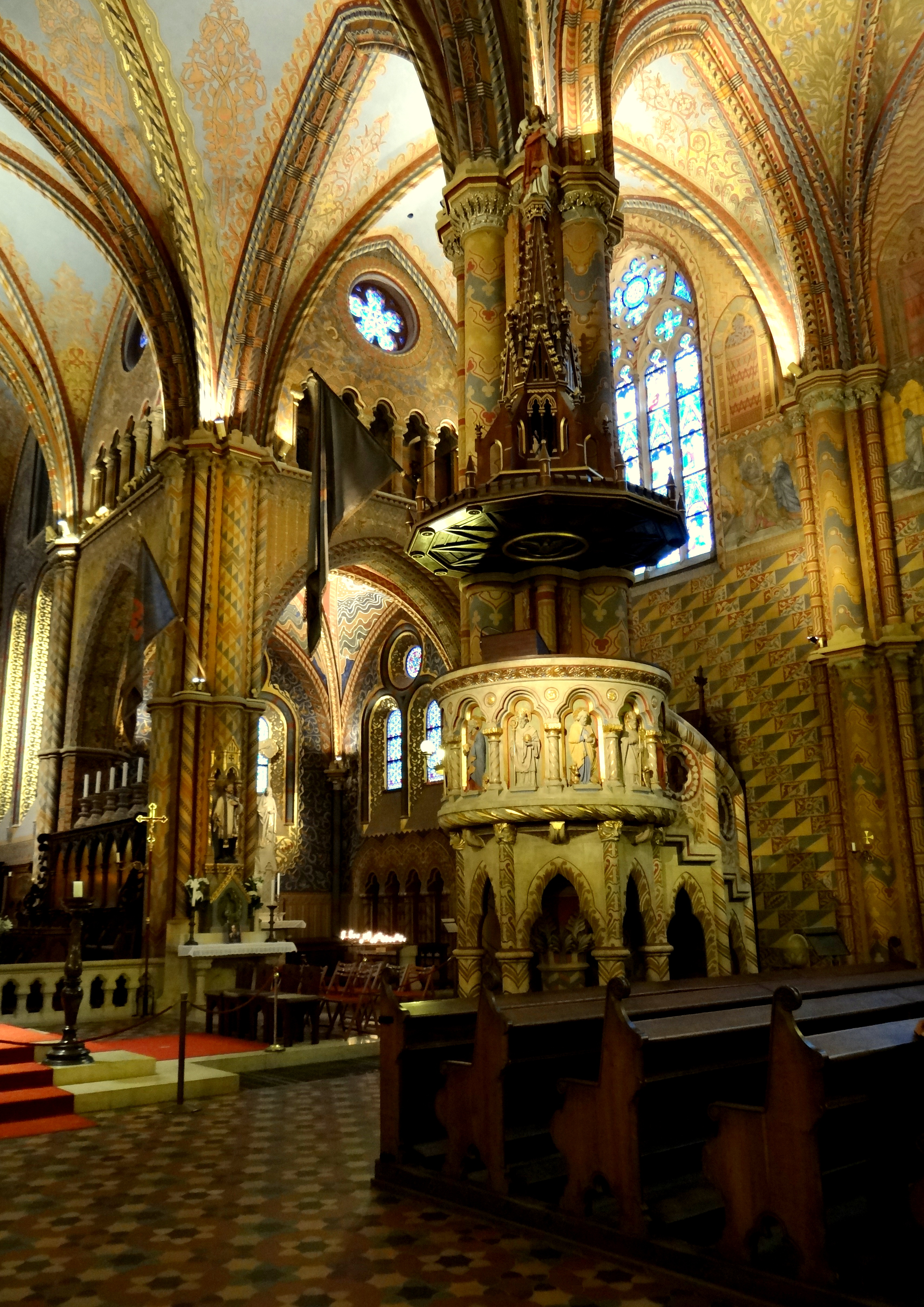 Pulpit of Matthias Church in Budapest, general view.